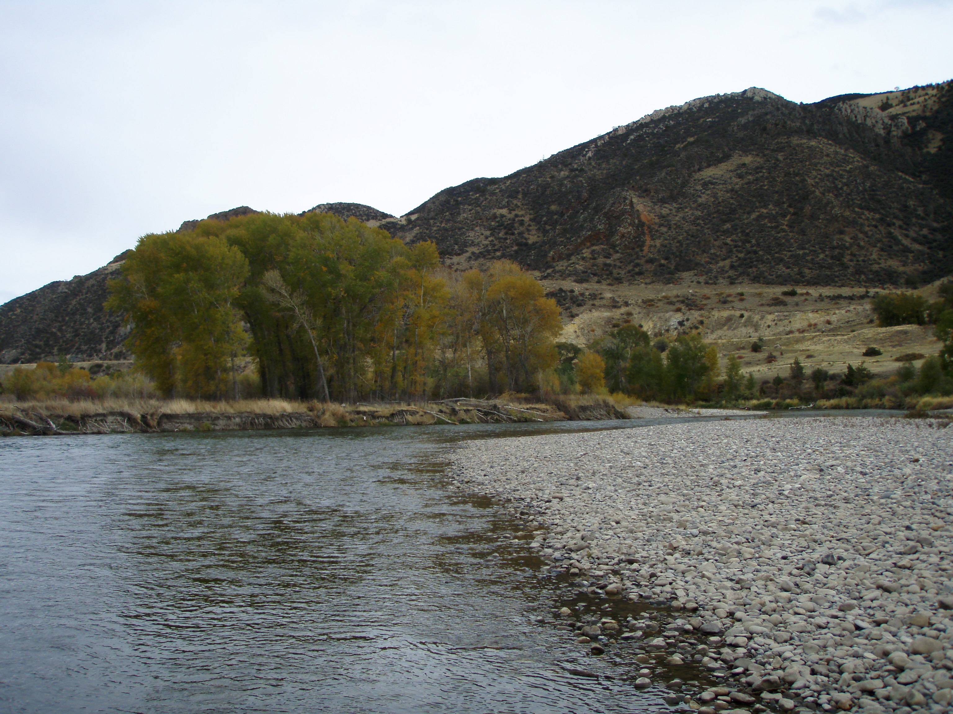 Jefferson River, Madison County, Montana near Parrot Castle